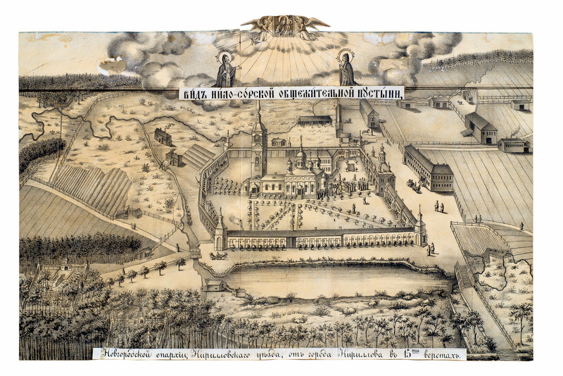 Engraving "Nilo-Sorskaya Poustinia"